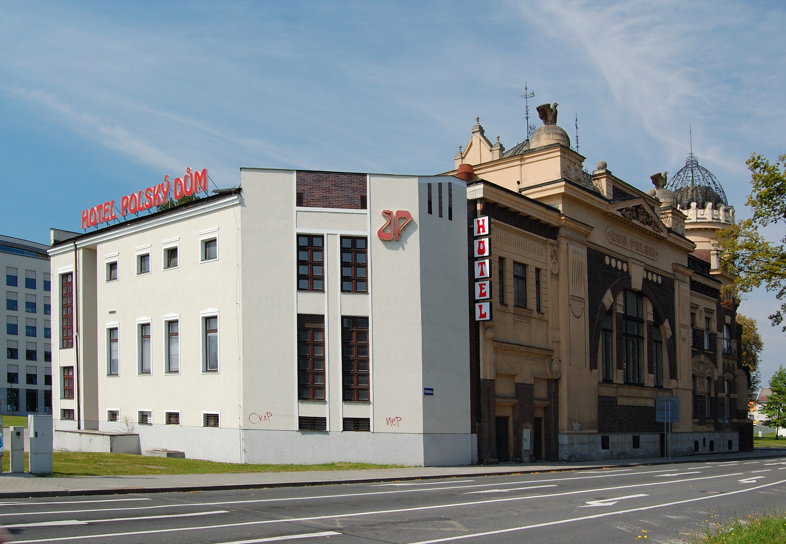 Hotel "Polský dům" (The Polish House, Dom Polski) in Ostrava, Czech republic.